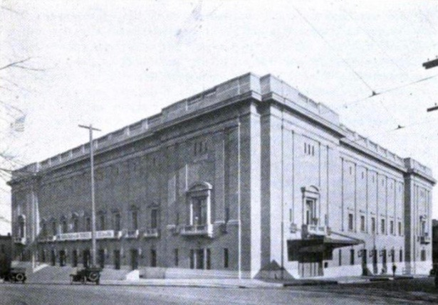 The Portland Public Auditorium in downtown Portland, Oregon circa 1918, viewed from the west, across the intersection of SW 3rd & Market. Completed in 1917, the building was heavily rebuilt in 1967–68, when it was known as the Civic Auditorium, and currently is known as Keller Auditorium. The building originally had flagpoles on its roof, flying large U.S. flags; two are barely discernible in this photograph, the one in the upper center of the view being almost completely lost in the sky through overexposure.